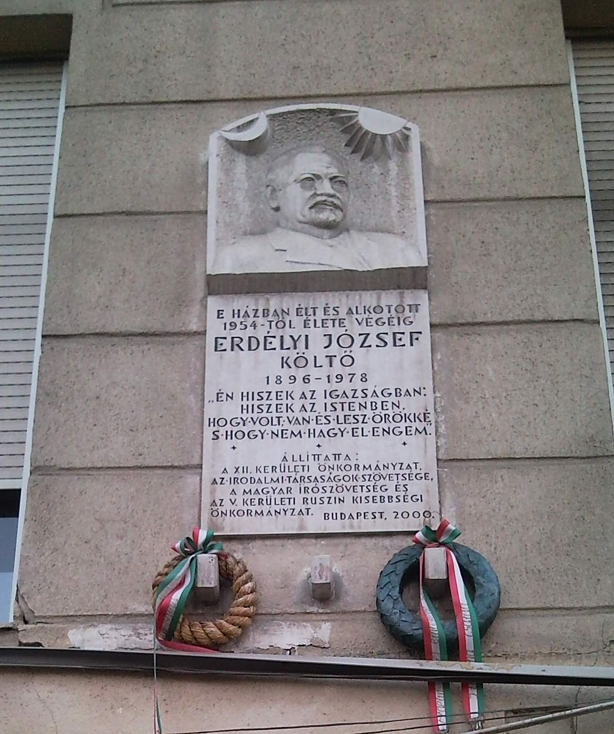 József Erdélyi commemorative plaque with relief in Budapest District XII, Királyhágó Street No 2. Creator: László Rajki.